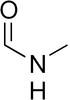 chemical structure of N-methylformamide